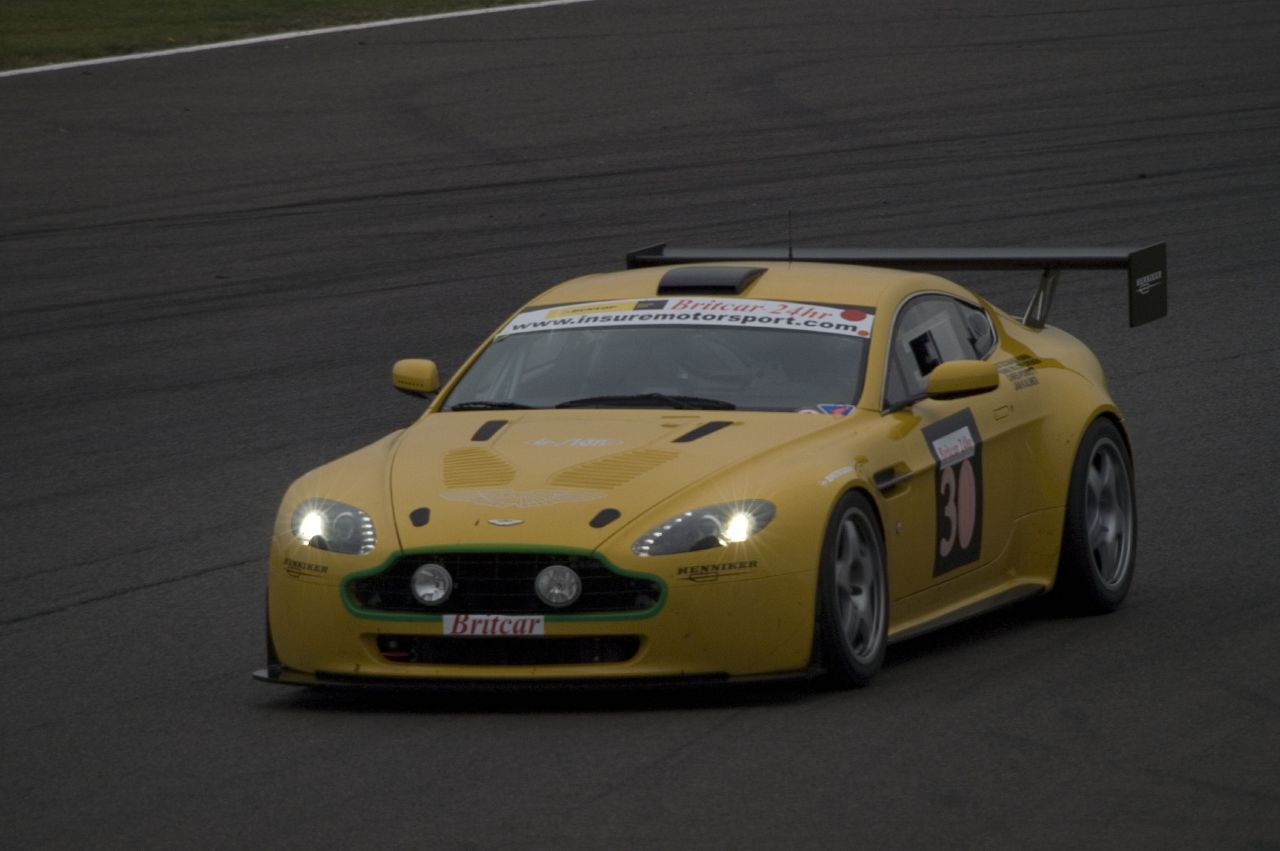 An Aston Martin V8 Vantage N24 at the Britcar 24 Hours at Silverstone Circuit